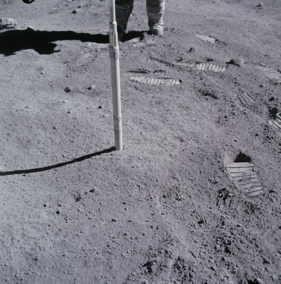 Apollo 16 astronaut Charlie Duke (feet shown) drives a core sample tube into the lunar regolith.